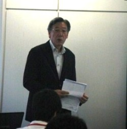 Kōji Sakamoto, Professor of the Graduate School of Regional Policy Design, Hosei University, gave a lecture at Japan Industrial Location Center in Chiyoda Ward, Tōkyō Metropolis on August 27, 2014.